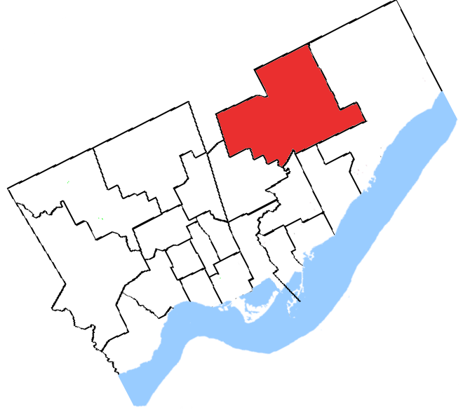 Map of the York—Scarborough electoral district showing its borders from 1966 to 1976. Created by SimonP.